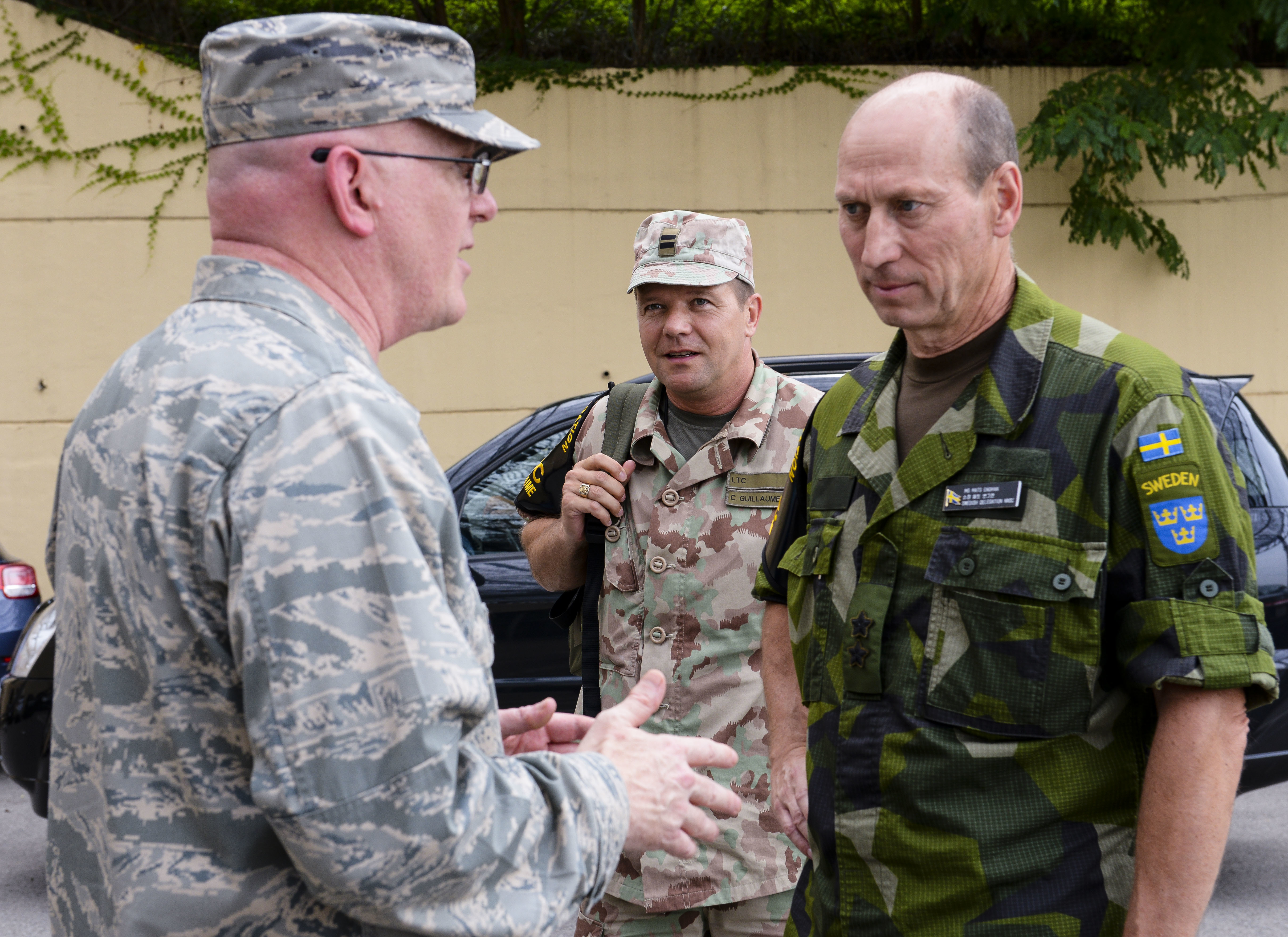 Col. Christopher Cotts, Seventh Air Force chief of staff, greets Swedish Maj. Gen. Mats Engman, right, head of policy and plans department for the Swedish Armed Forces and Swedish Neutral Nations Supervisory Commission member, and Swiss Lt. Col. Christian Guillaume, Swiss delegate to the NNSC, during an observation tour during exercise Ulchi Freedom Guardian Aug. 24, 2015, at Osan Air Base, Republic of Korea.. The NNSC provides transparency to the international community by ensuring planning and operations are conducted with a "defensive and deterrent" nature. (U.S. Air Force photo by Airman 1st Class John Linzmeier) Unit: Seventh Air Force Public Affairs DVIDS Tags: ROK; exercise; UFG; Air Control Center; UFG 15